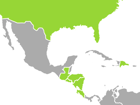 Map of all countries which have ratified the Dominican Republic–Central America Free Trade Agreement.